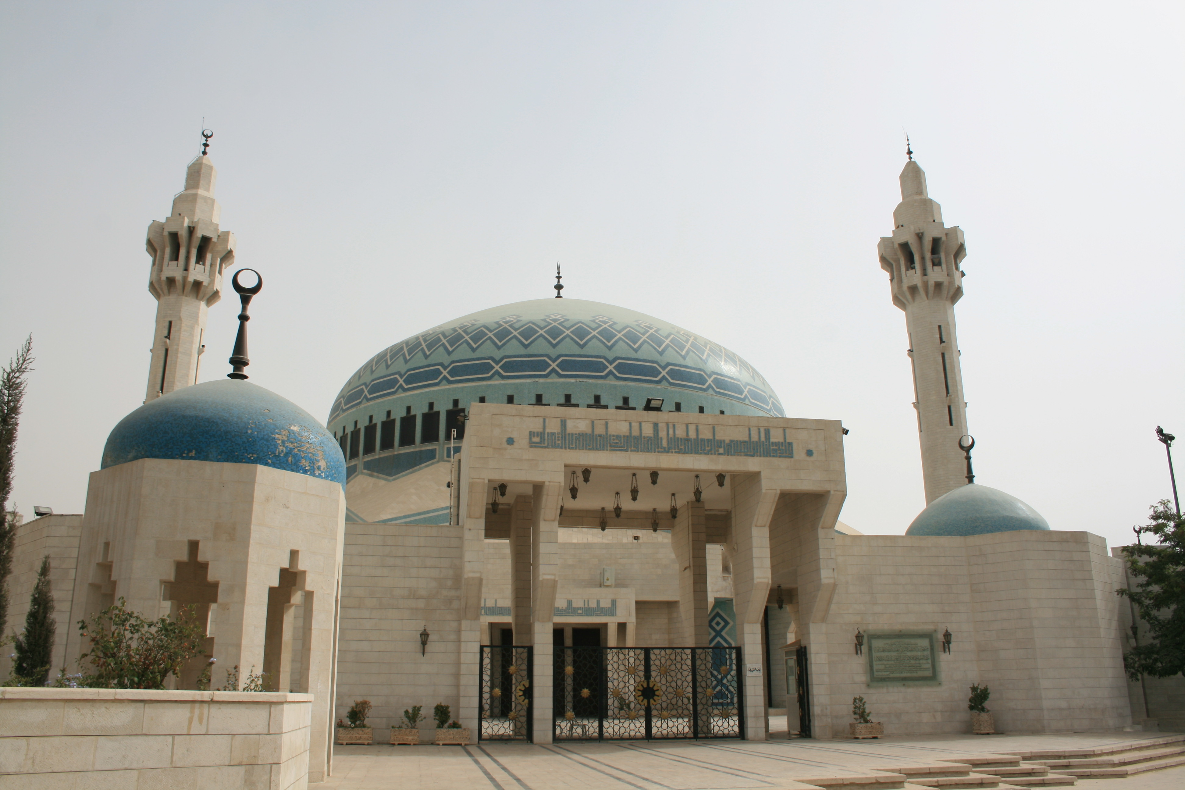 King Abdullah I Mosque, Amman, Jordan